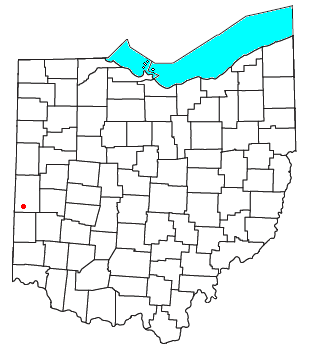 Locator map of the unincorporated community of Otterbein in Darke County, Ohio, United States.